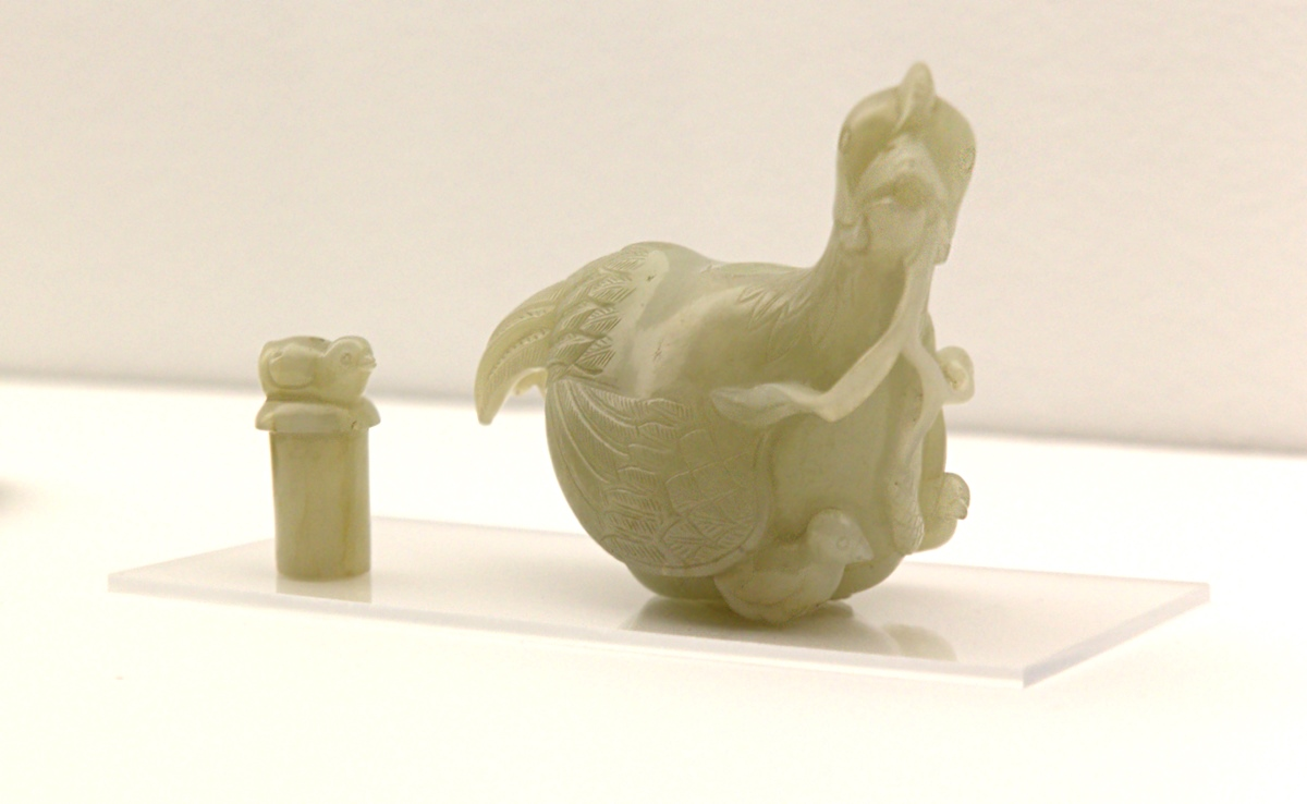 Chinese hen-shaped water dropper